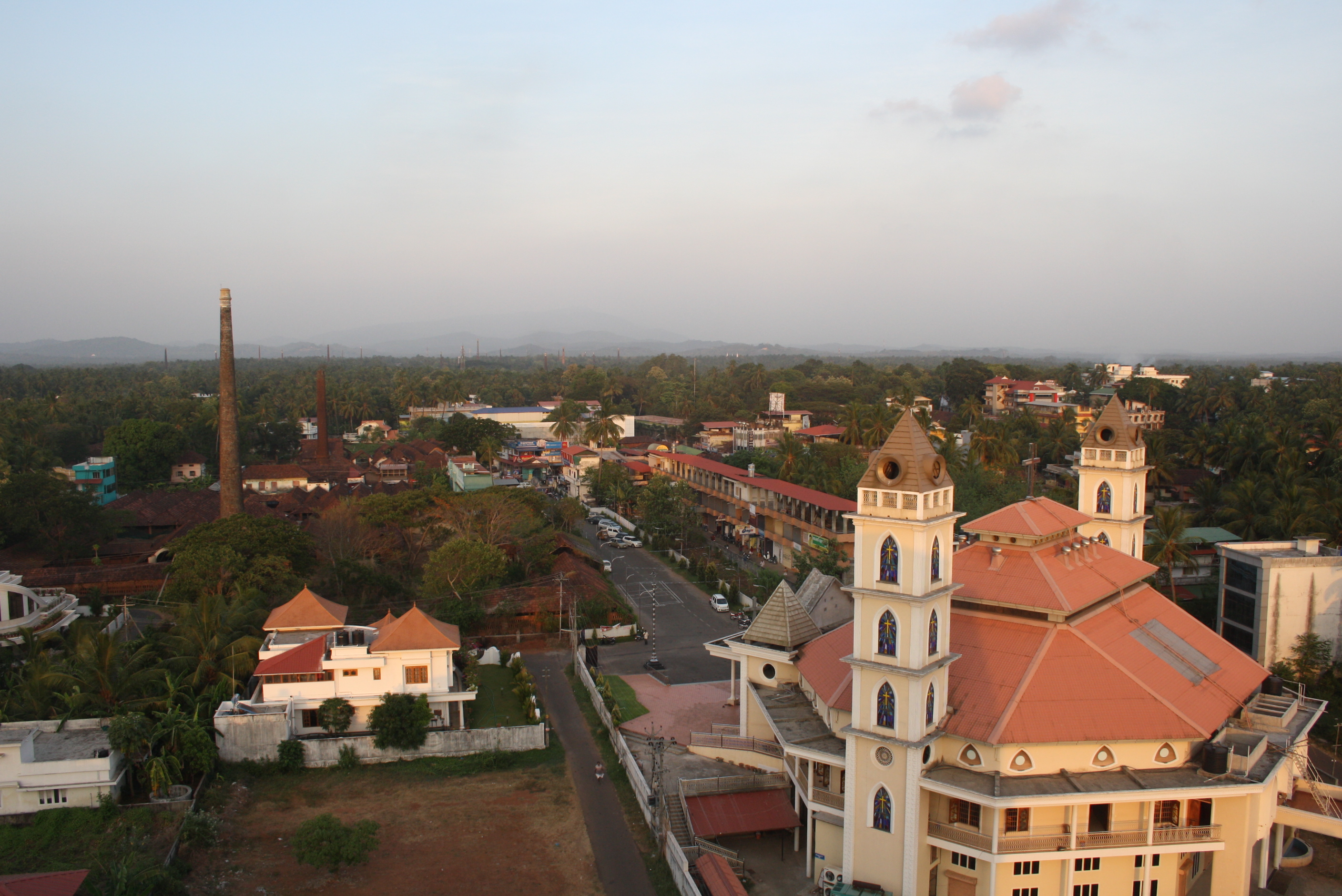 Skyline of Ollur town